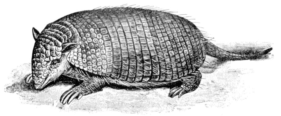 Fig. 104.—Peludo Armadillo. Dasypus sexcinctus. × ¼. (After Vogt and Specht.) Now referred to genus Euphractus.